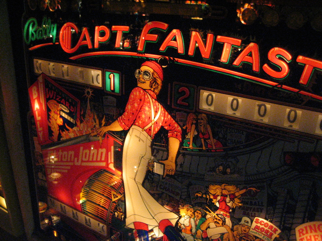 Bally's Captain Fantastic.